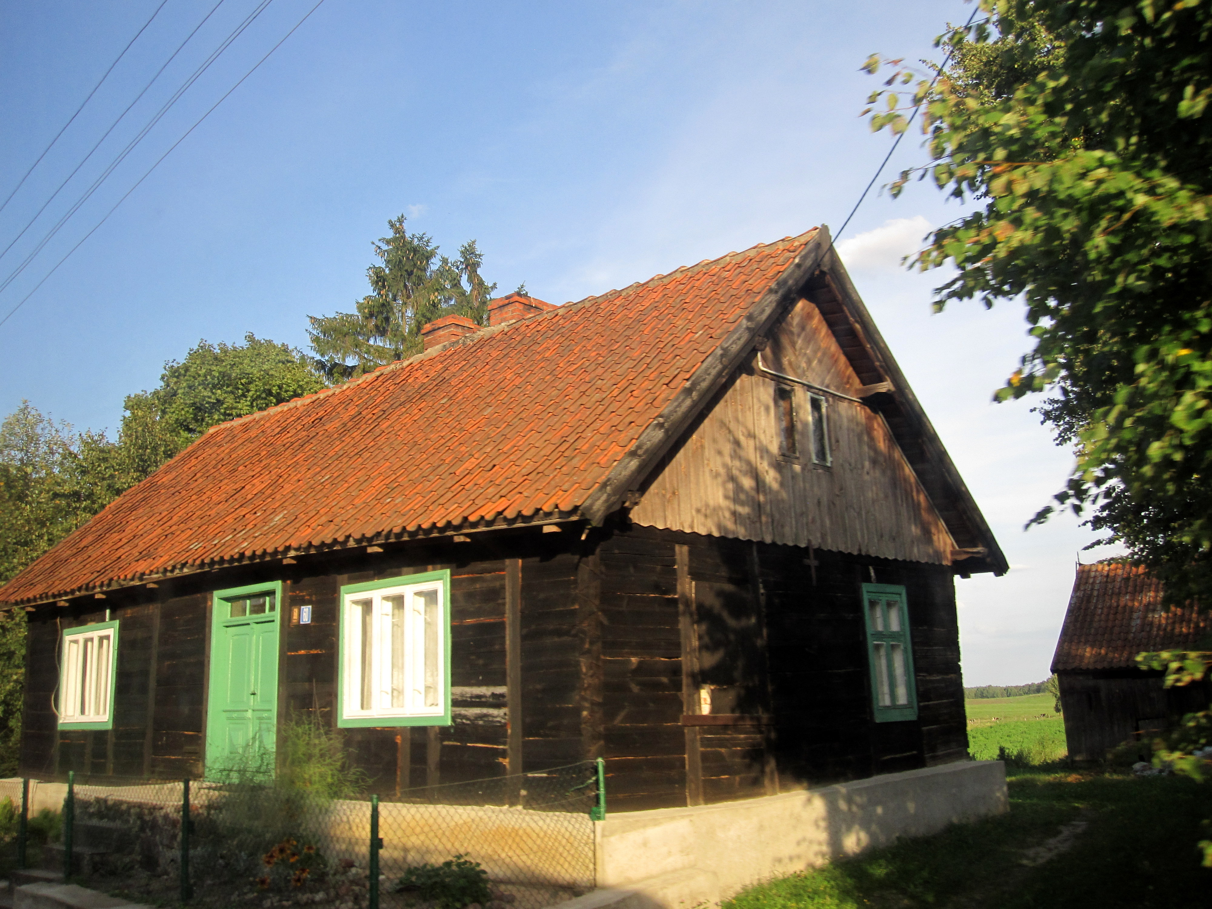 Building in Wojnowo